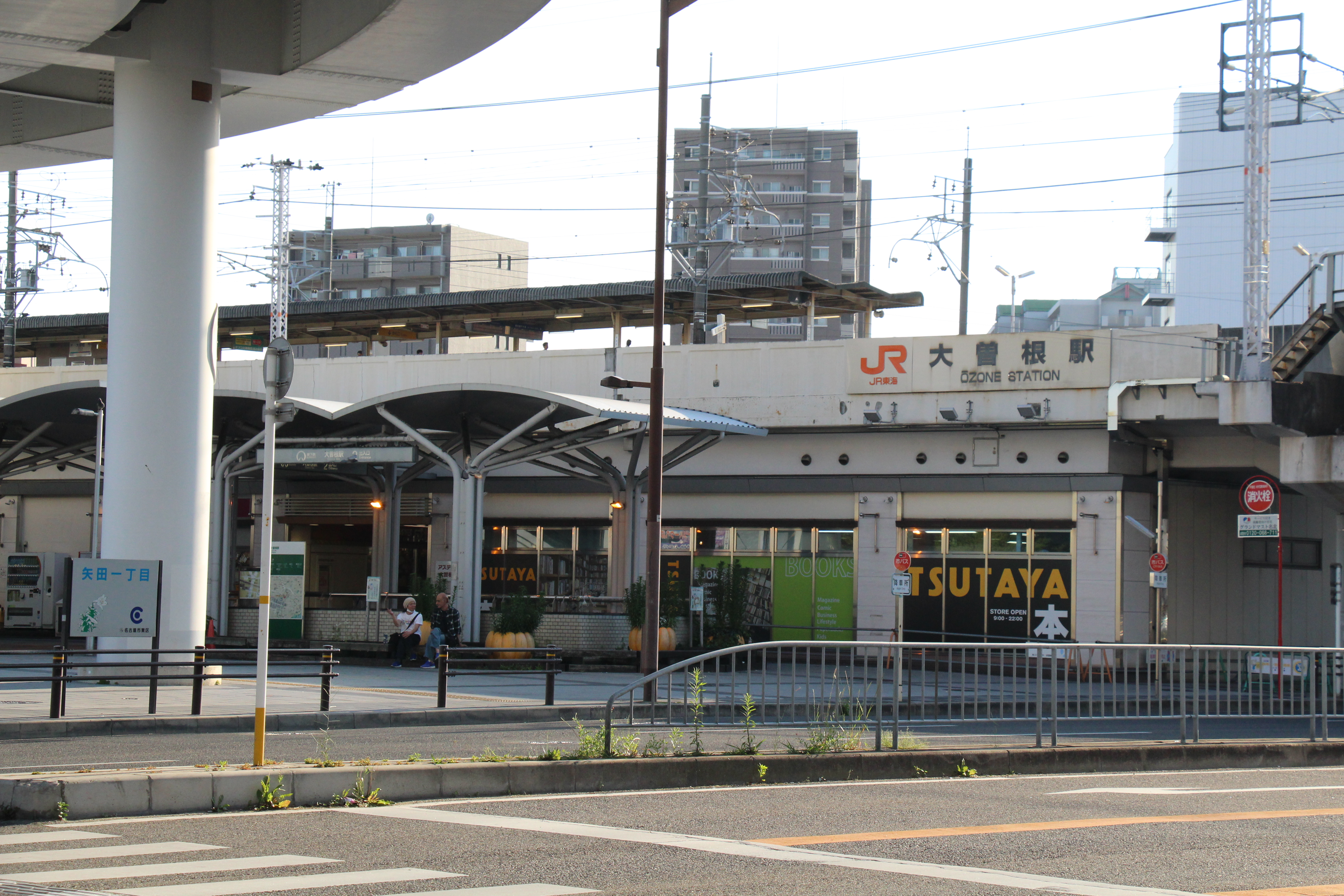 The east side of ASTY Ōzone taken from the northwest corner of Ozone Sta.